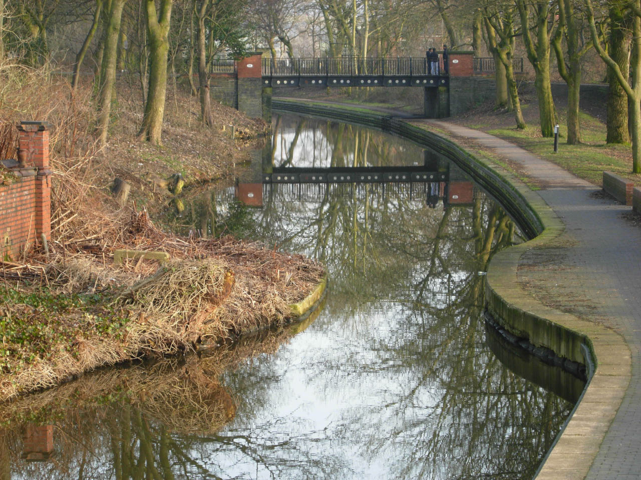 Caldon Canal, Hanley Park. Seen from bridge 5A, looking towards bridge 5B, the canal winds attractively through this city park.